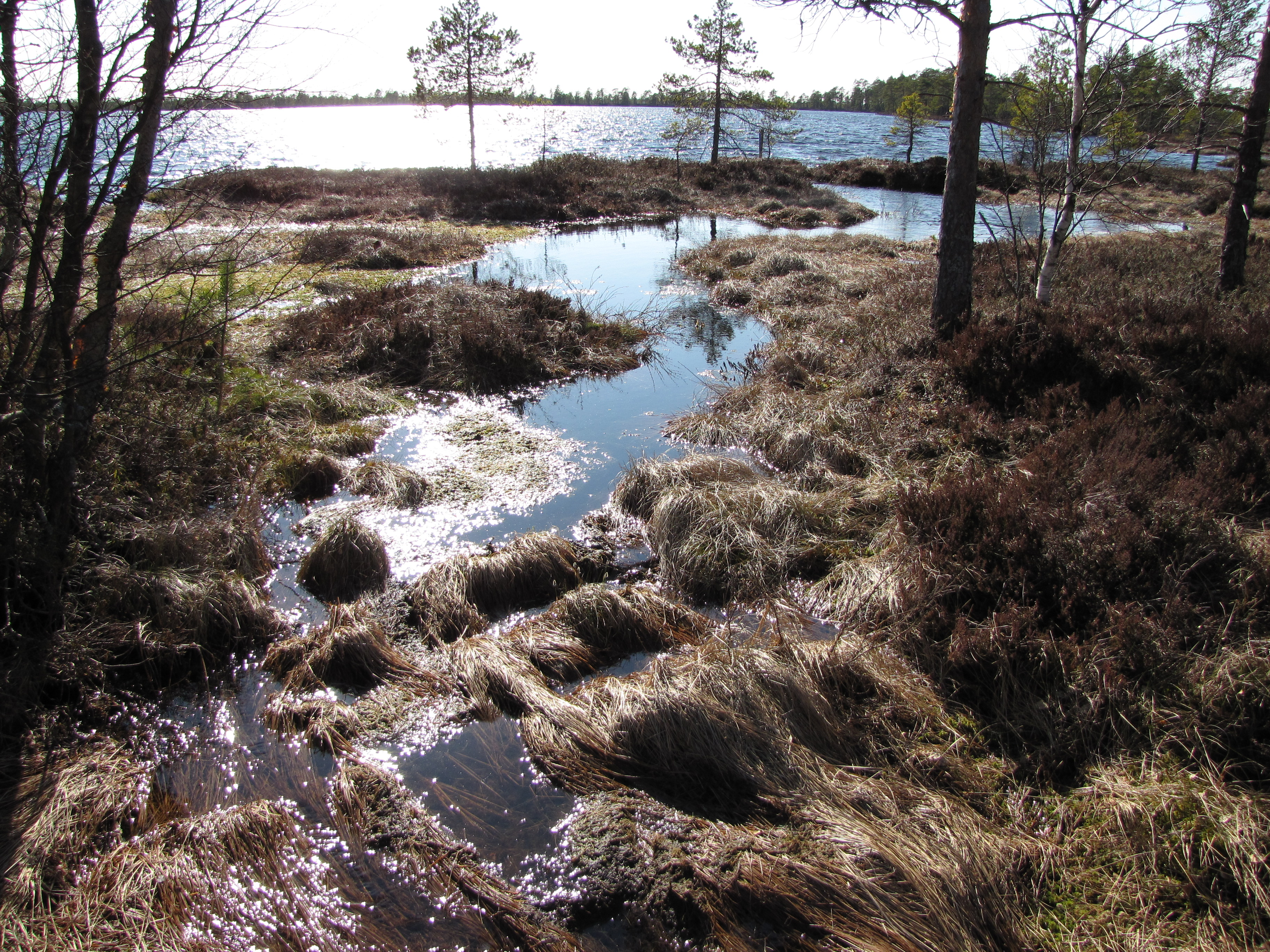 Kauhaneva–Pohjankangas National Park, Finland. There are Lake Kauhalammi in the background.